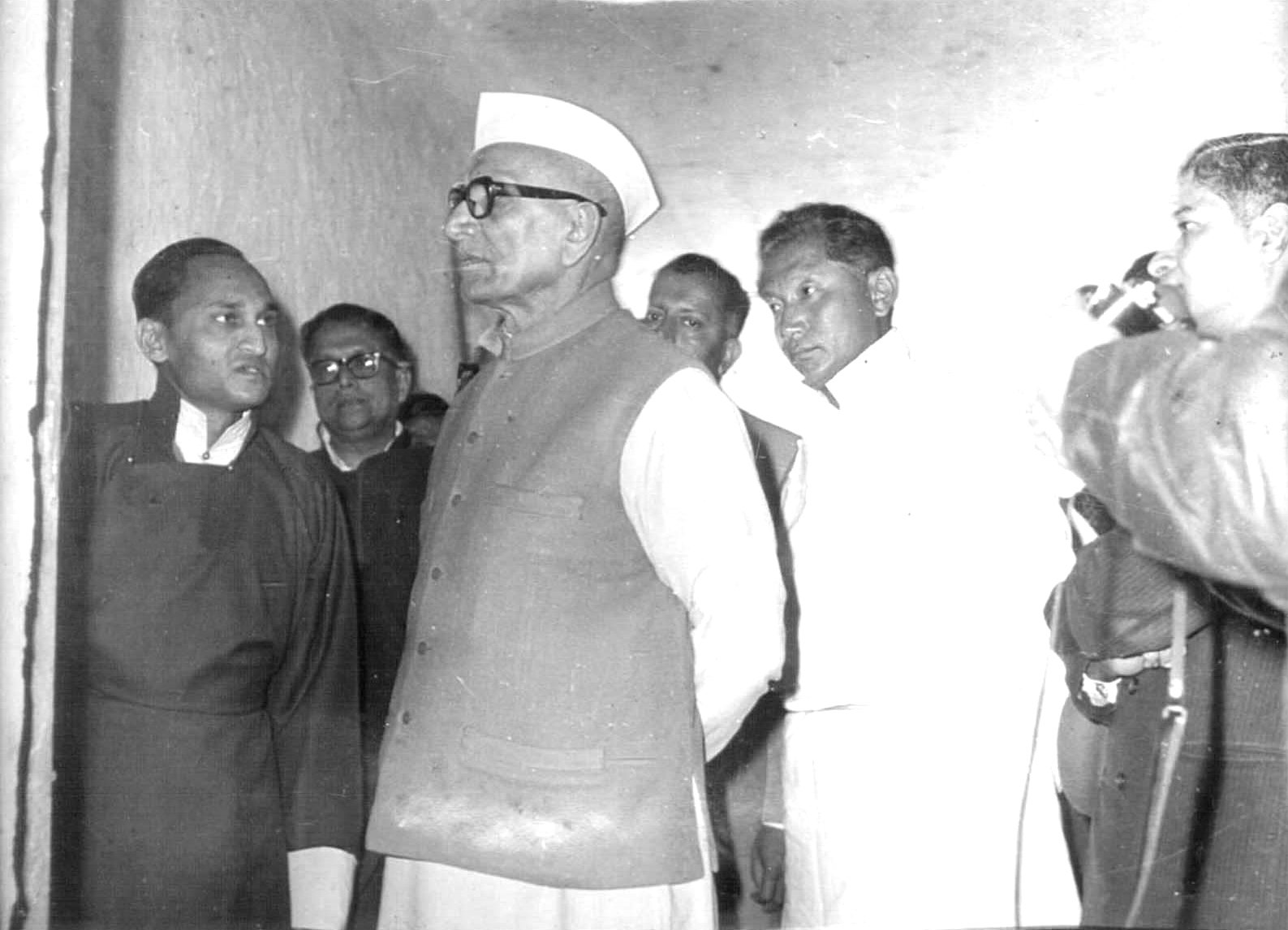 At Sikkim Mining Corporation: 1969:MSK showing production processes chart to Mr. Morarji Desai Deputy Prime Minister of India.